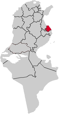 Map of Tunisia with highlighted Monastir Governorate